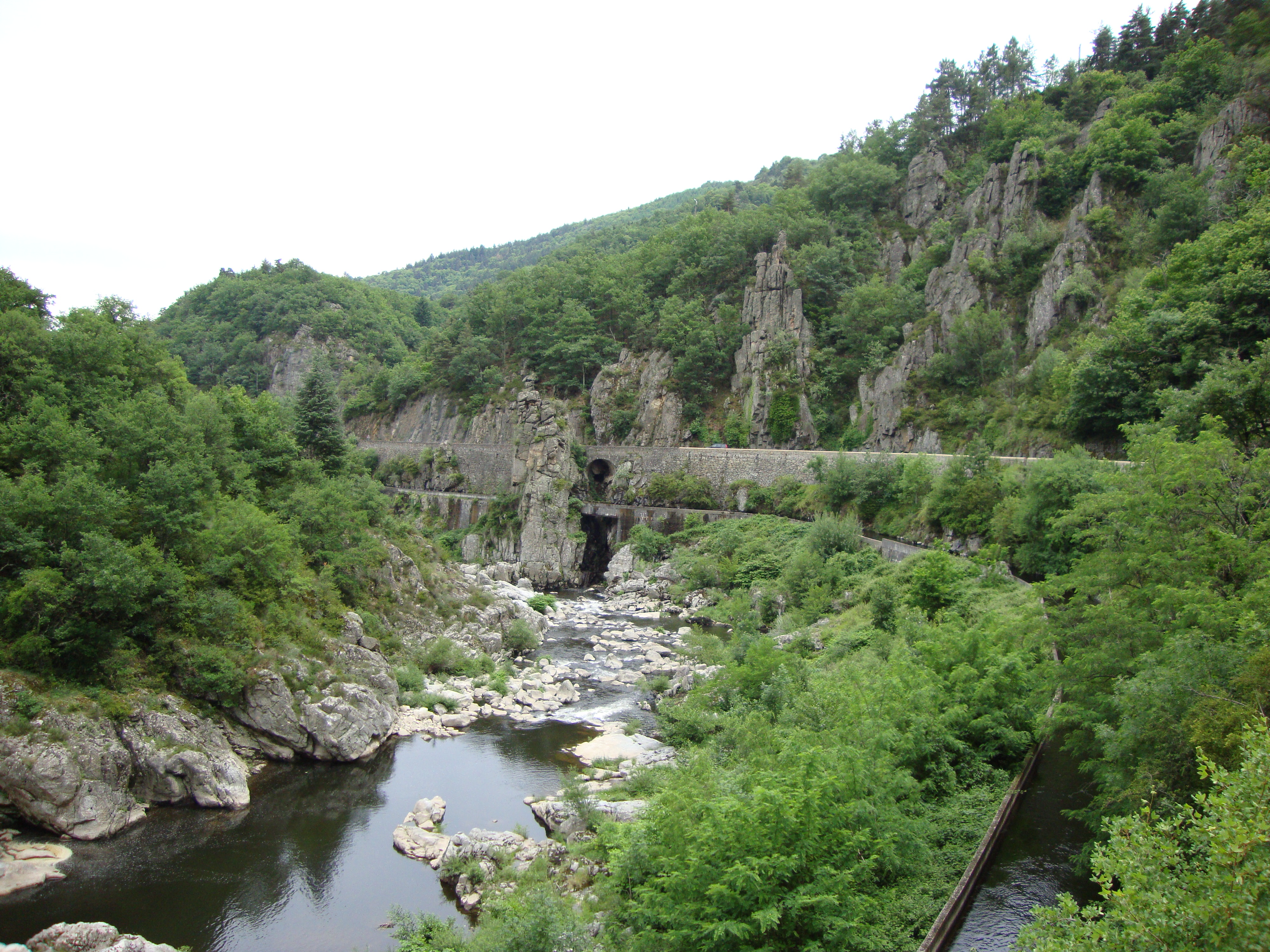 Beauvène (Ardèche, Fr) L'Eyrieux